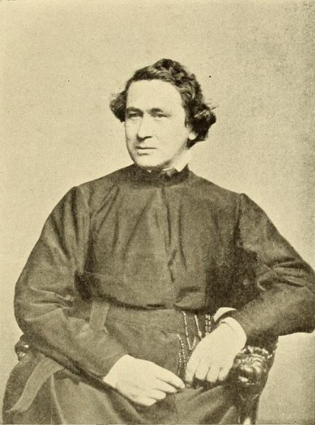 Image of Rev. Anthony F. Ciampi, S.J., president of the College of the Holy Cross in Massachusetts. Caption: "Rev. Antony Ciampi, S.J."